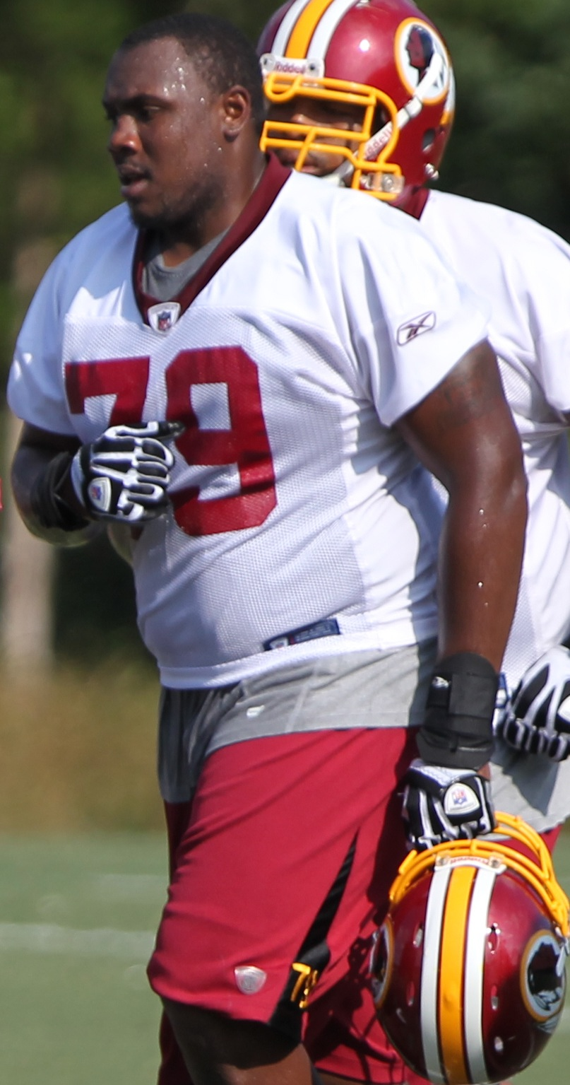 Maurice Hurt at Washington Redskins Training Camp August 4, 2011